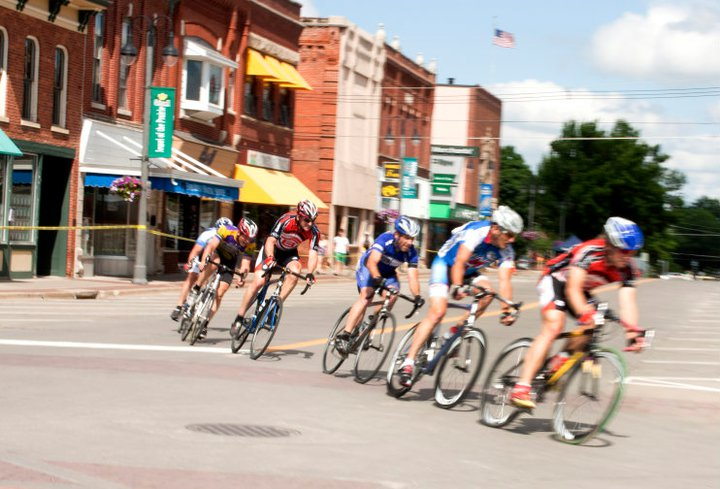 Bike race